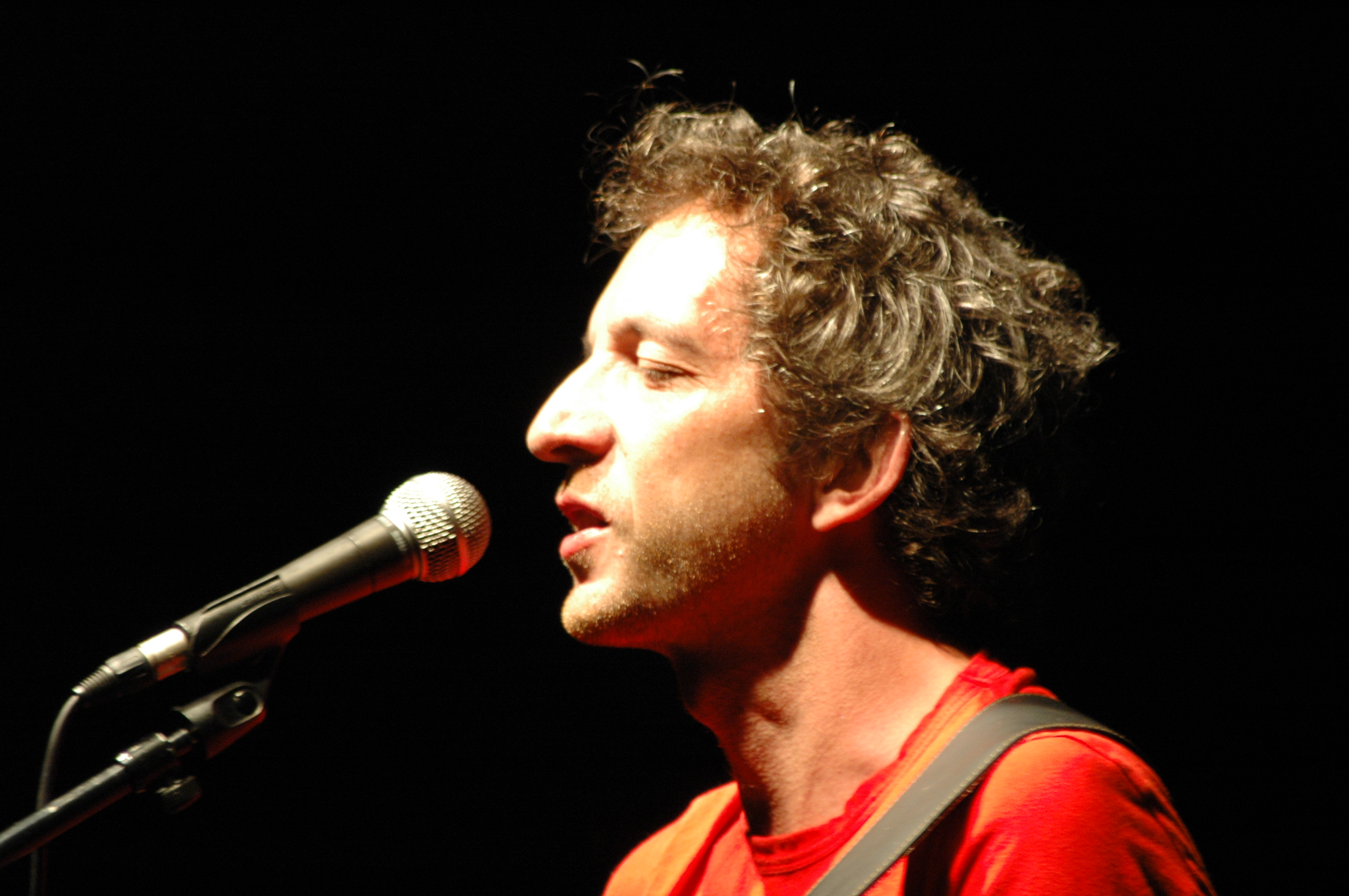 Arthur H in concert